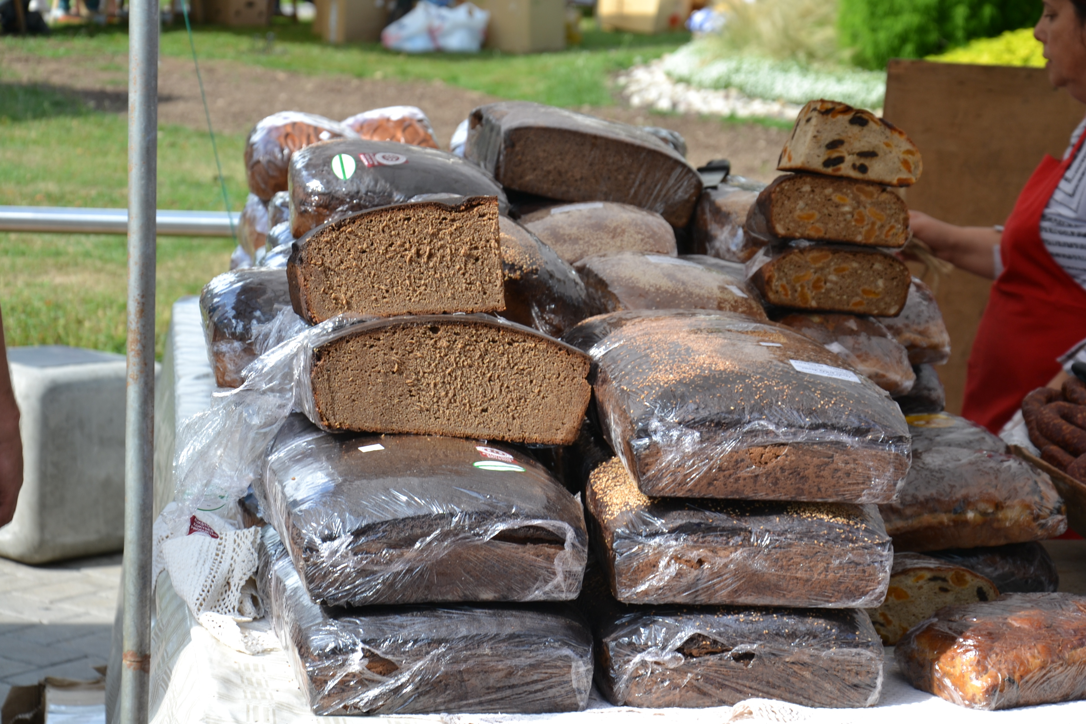 Hansaleib